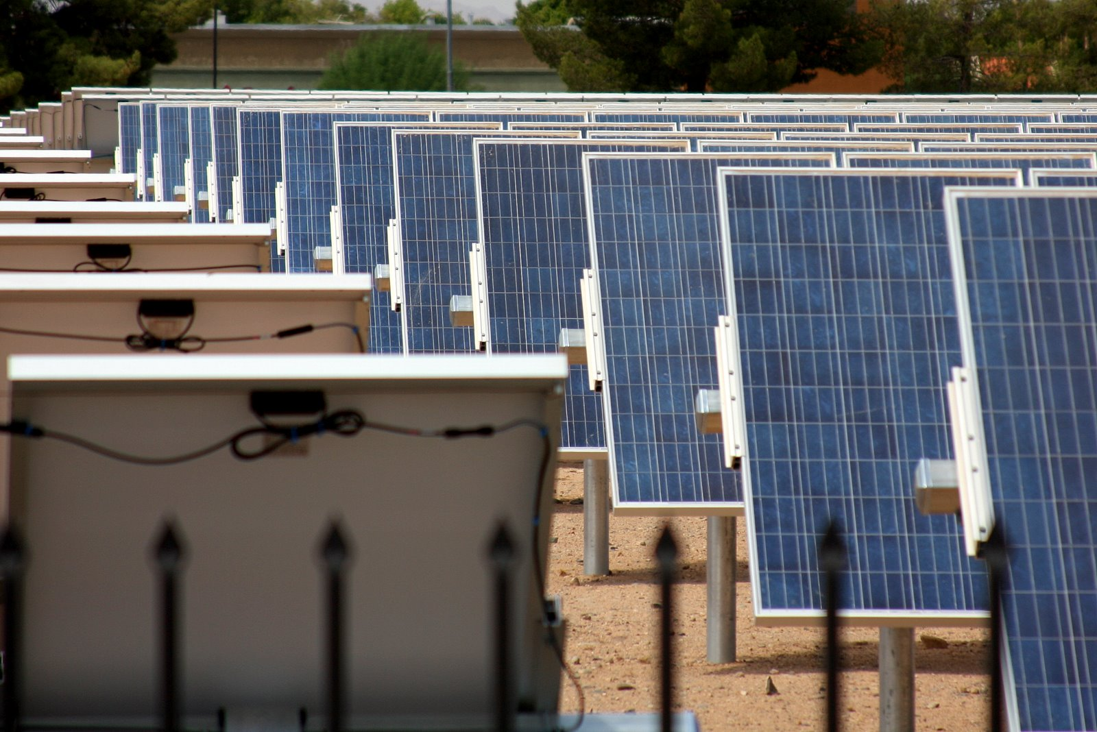 Solar Array — at the West Campus, Arizona State University, Phoenix, Arizona.